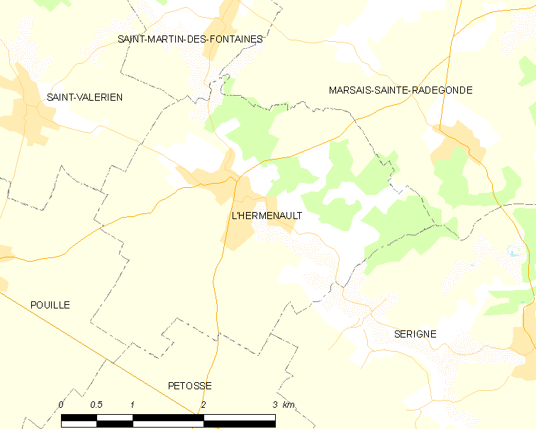 Map of French municipality L'Hermenault